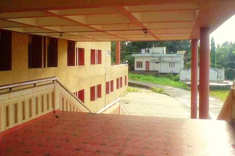 A view of college of engineering adoor corridor...